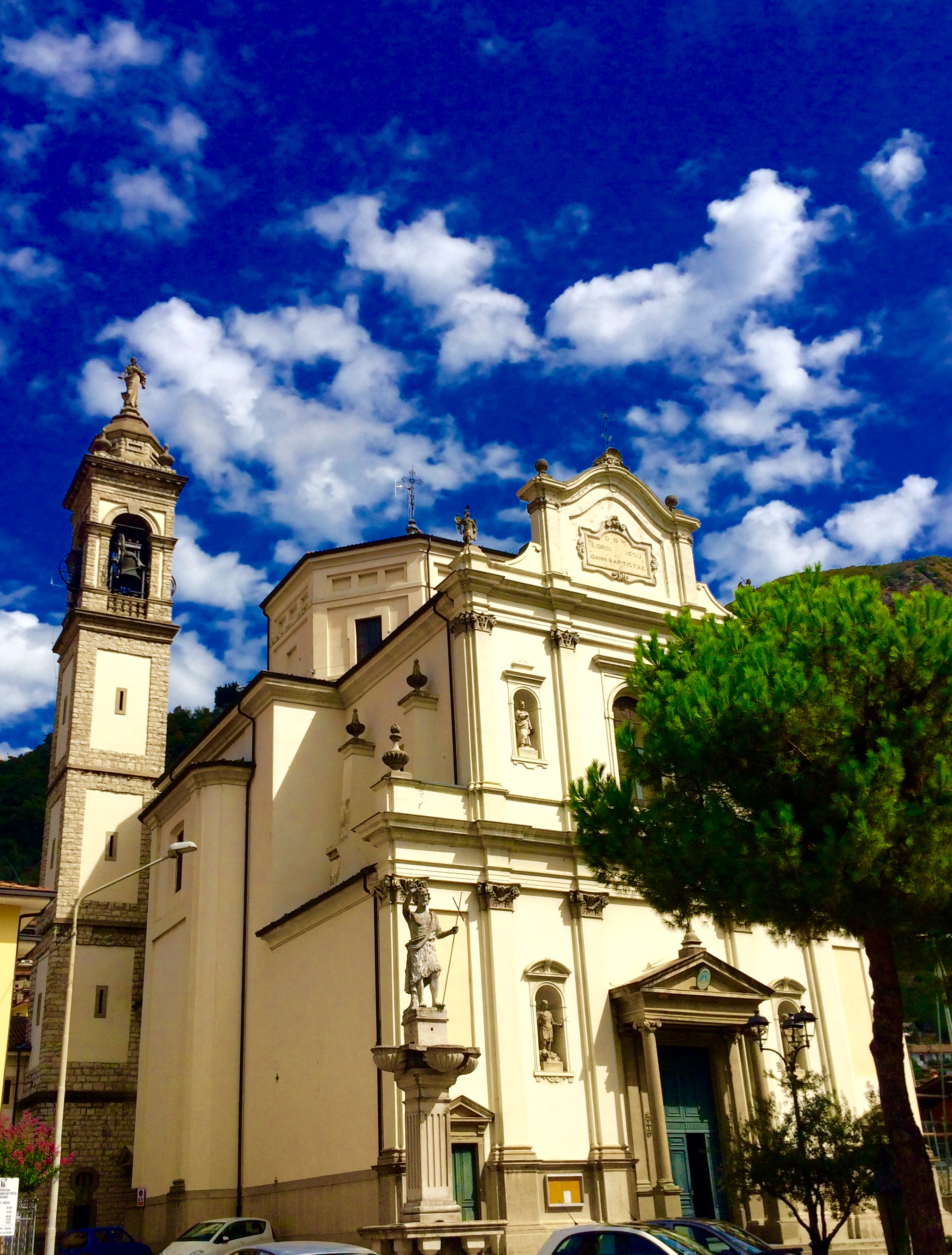 Predore's Church